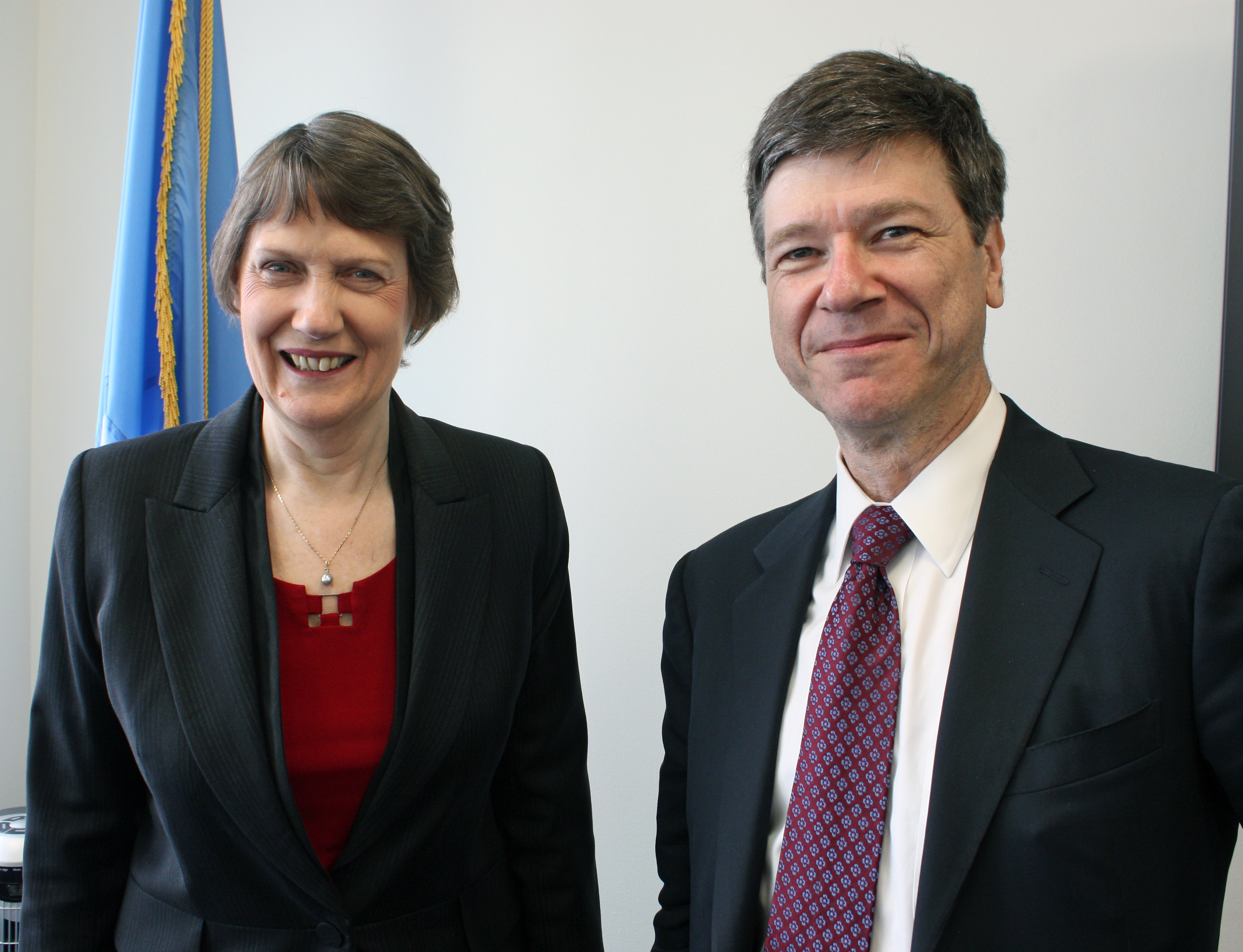 UNDP Administrator Helen Clark mets Jeffrey Sachs, Special Advisor to United Nations Secretary-General Ban Ki-moon, at UNDP headquarters in New York.